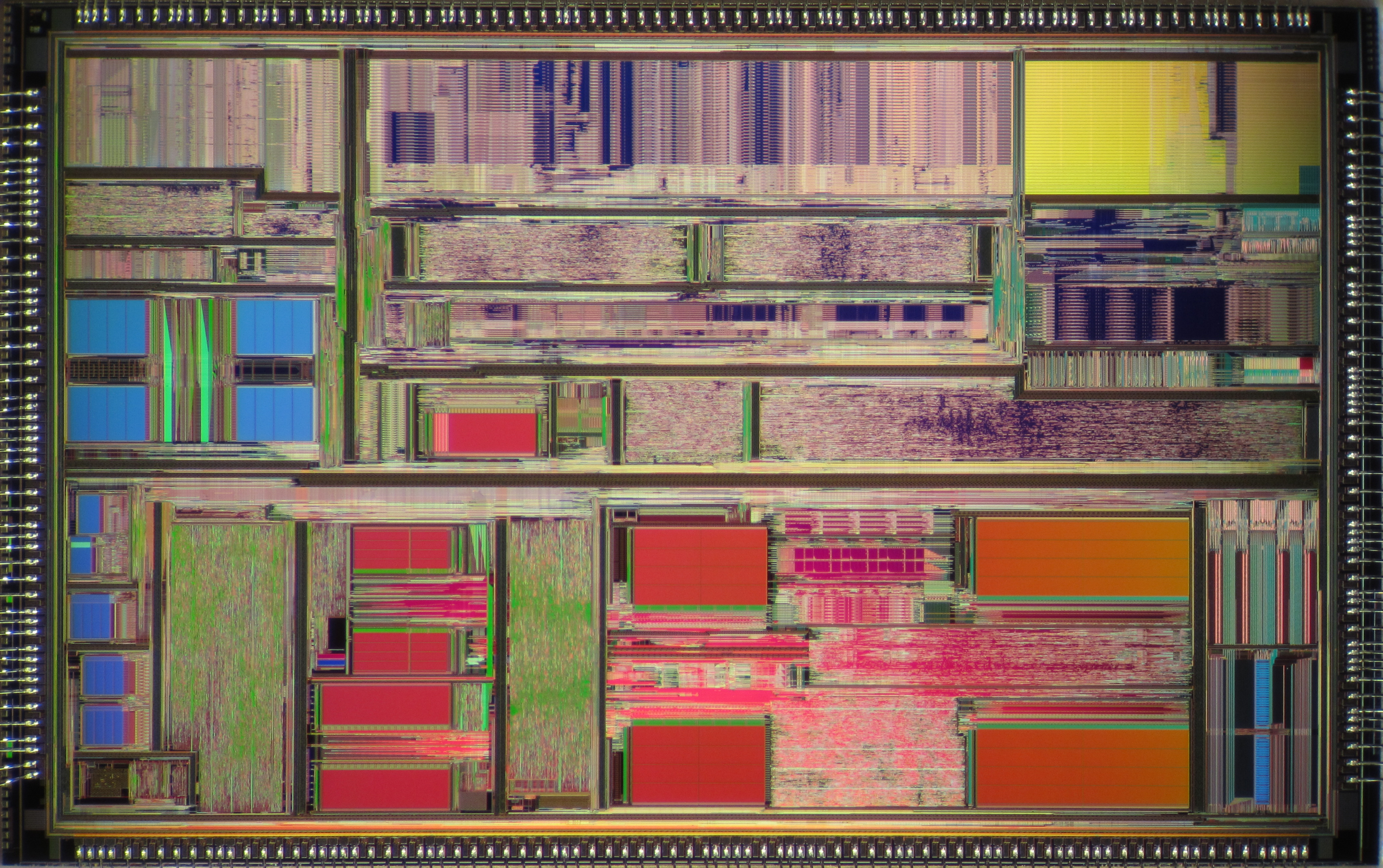 Die shot of AMD K5 PR150 microprocessor (AMD-K5-PR150ABR rev B).